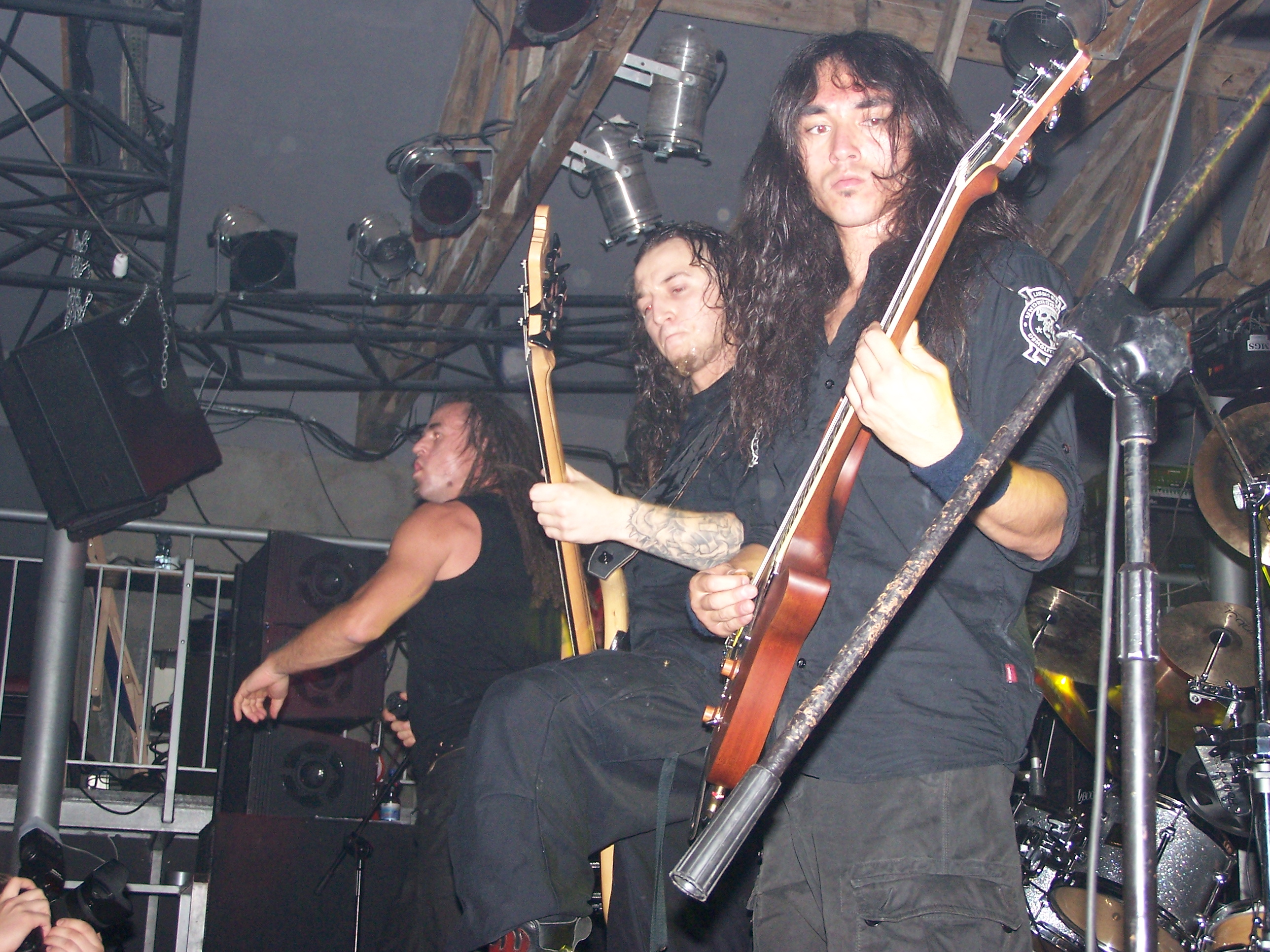 Rootwater during Polish Apostasy Tour 2007 in Mega Club in Katowice.